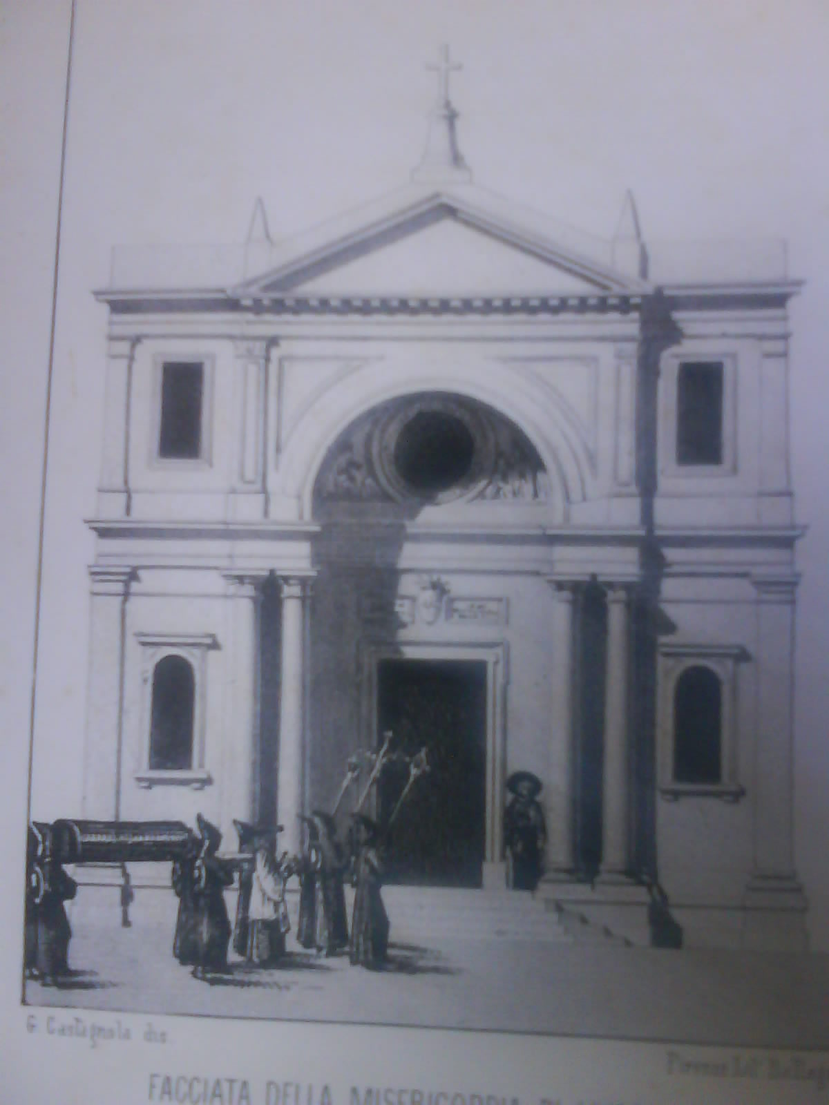 Ancient Misericordia church of Livorno. Engraving by Gabriele Castagnola.